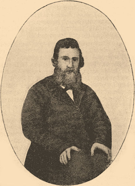 Meir Leibush ben Yehiel Michel Wisser, Illustration from Brockhaus and Efron Jewish Encyclopedia (1906—1913)